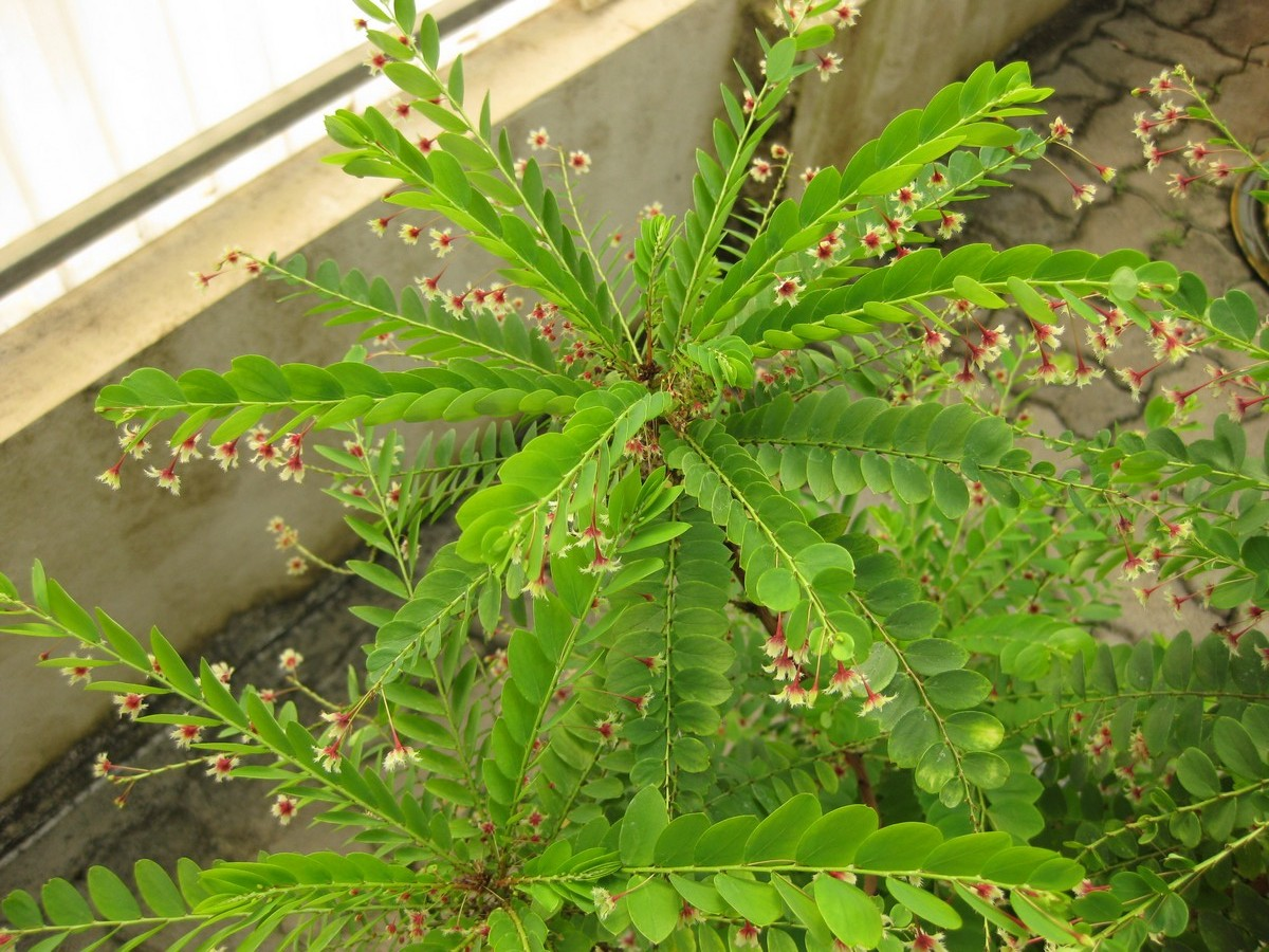 Photographed at the Queen Sirikit Botanic Garden (Chiang Mai Province, Thailand) in March